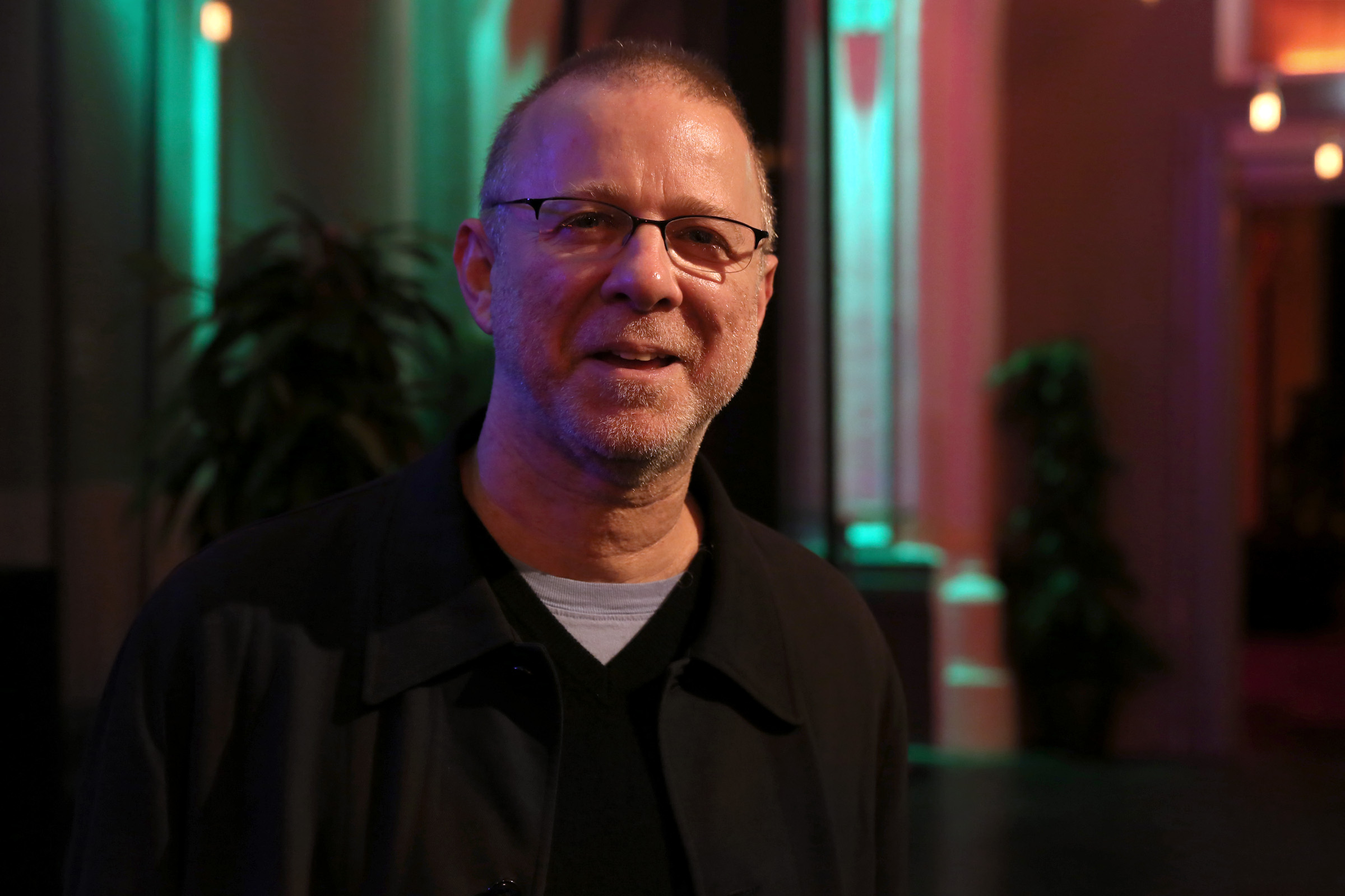 Vienna International Film Festival 2013: Alan Berliner, Joaquim Pinto, Neil Young and Juri Rechinsky discuss Forms of the Documentary (festival center in the building of Austrian Postal Savings Bank, Vienna, Austria).